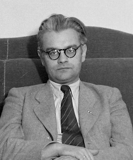 Sándor Zöld, later Minister of the Interior of Hungary